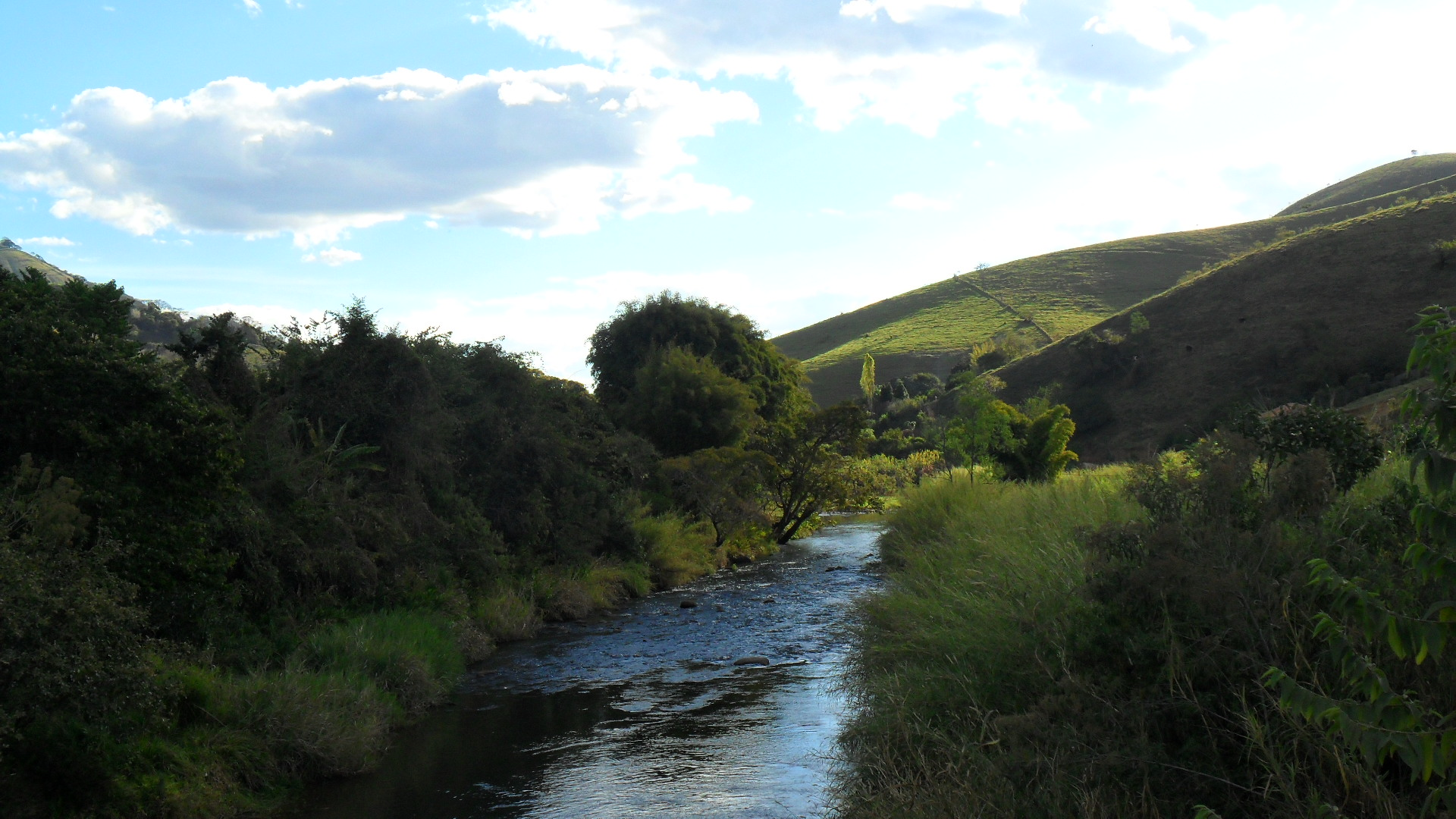 Lourenço Velho river in Itajubá, Minas Gerais, Brazil